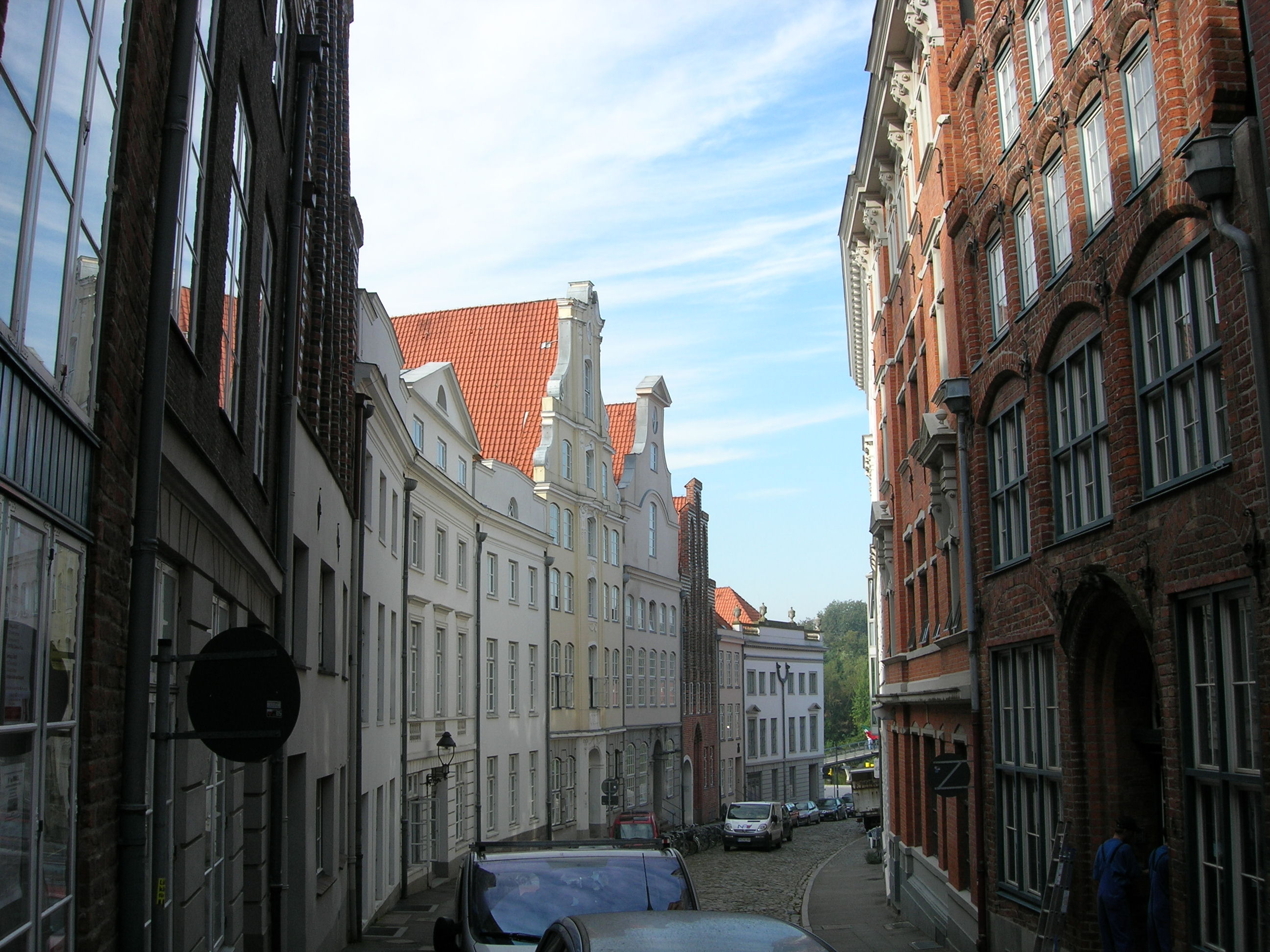 A street of old town of Lubeck